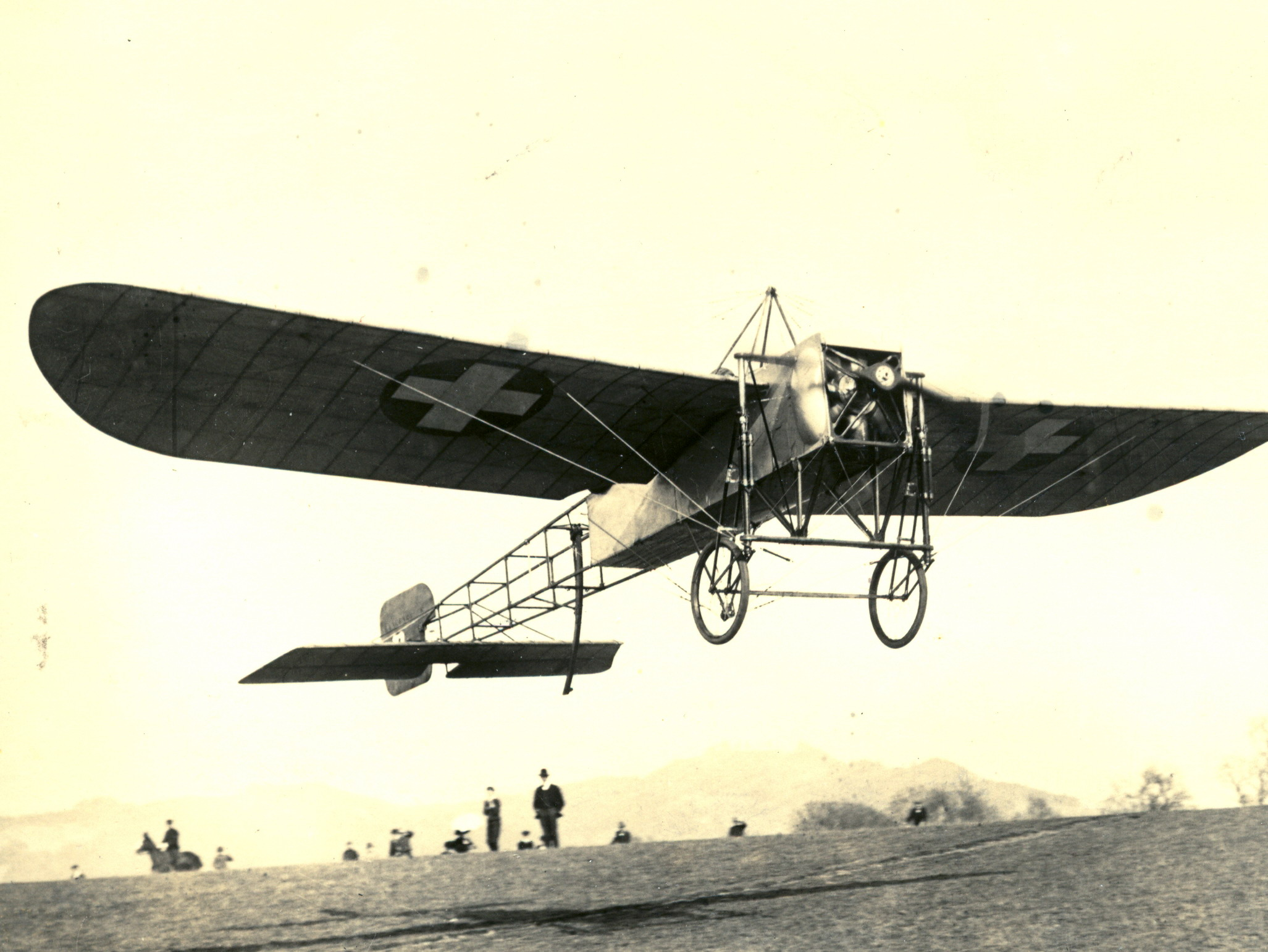 Oskar Bider starting in Bern to cross the alps on May 13 (Bern-Brig) or June 3 (Bern-Milano) 1913